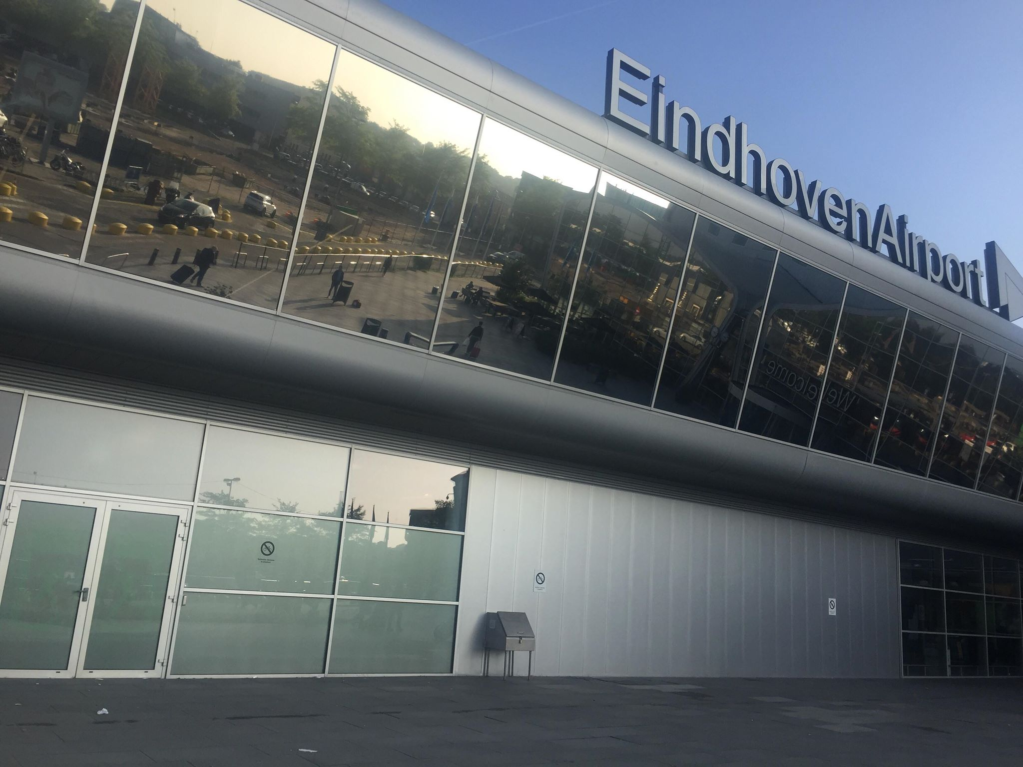 Morning view on Eindhoven Airport